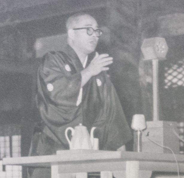 Second Shinbashira delivering a sermon at a Grand Service, in the Main Sanctuary of Tenrikyo Church Headquarters.